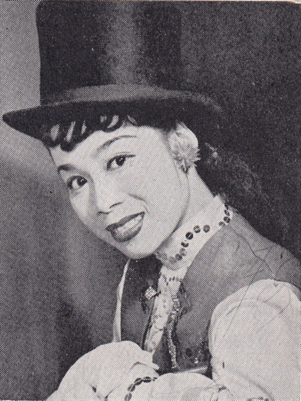 Kyomi Sakura, Actress from Japan. taken in 1956.